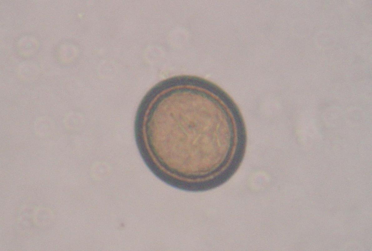 An egg of Taenia pisiformis. Photo taken through a microscope at 40x.